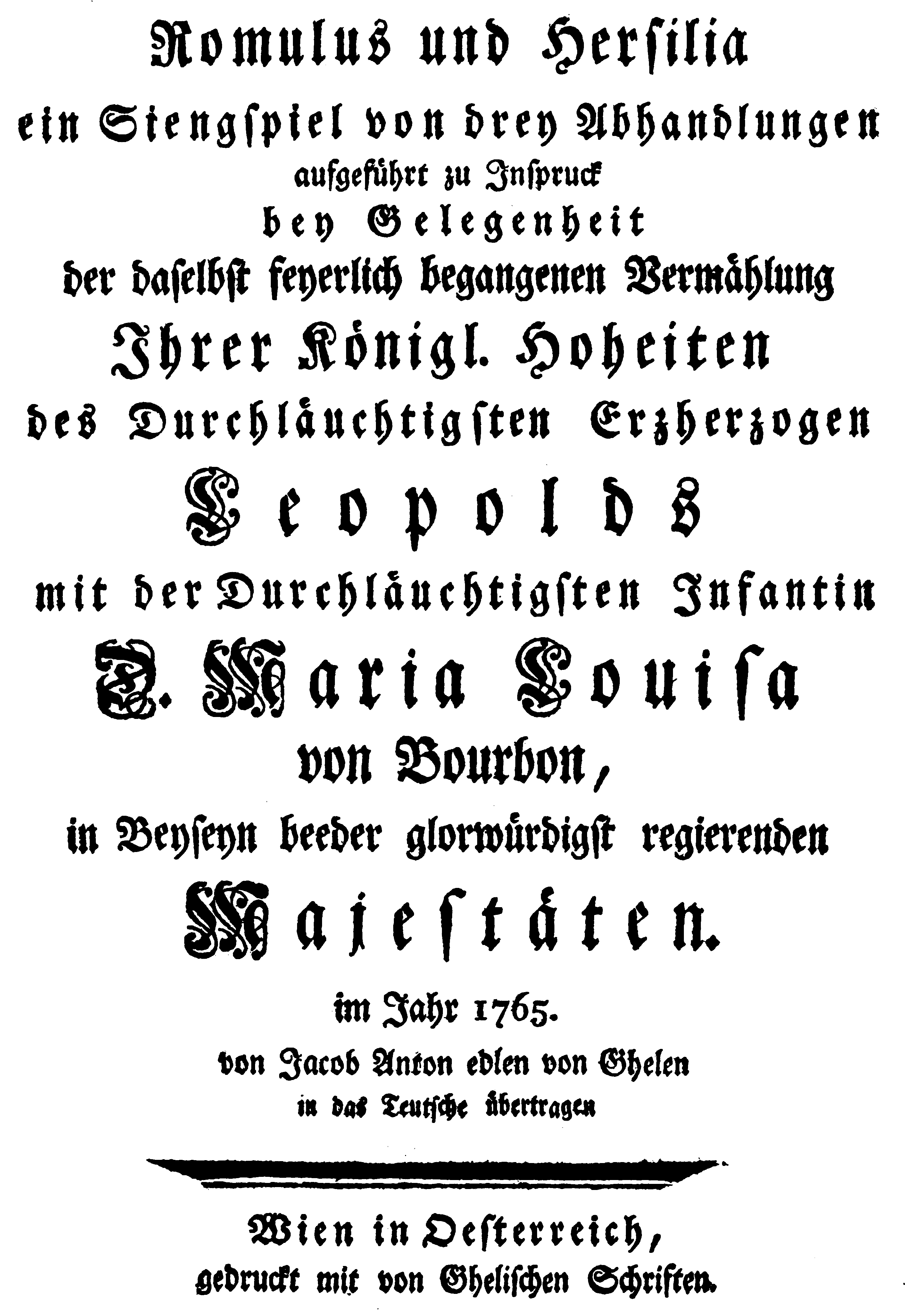 Johann Adolph Hasse - Romolo ed Ersilia - titlepage of the libretto - Innsbruck 1765